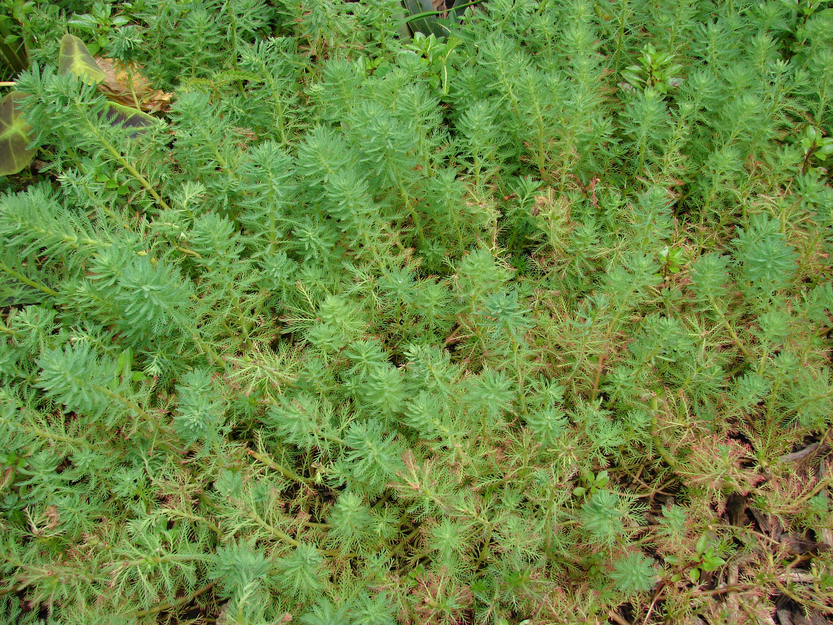 Myriophyllum aquaticum (habit). Location: Oahu, Hoomaluhia Botanical Garden